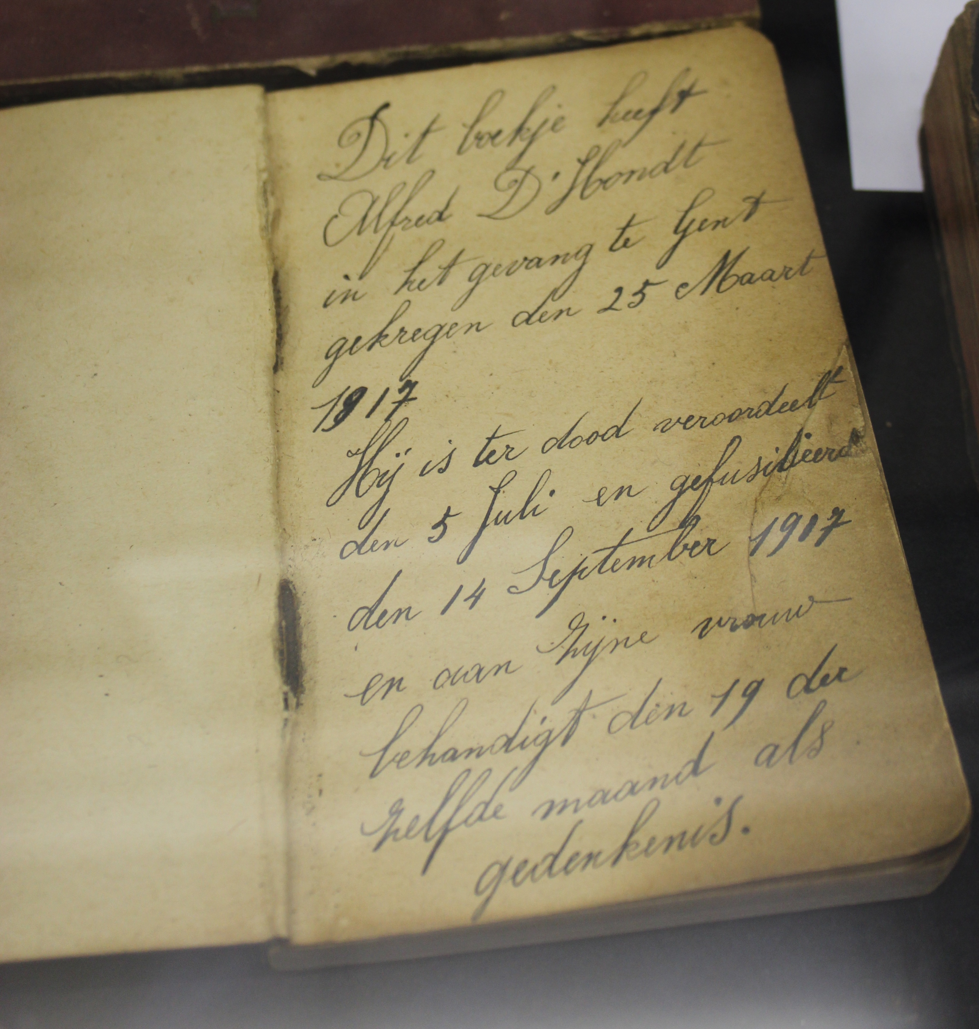 notitieboekje waar Alfred D'Hondt tijdens zijn verblijf in de Nieuwewandeling in noteerde.